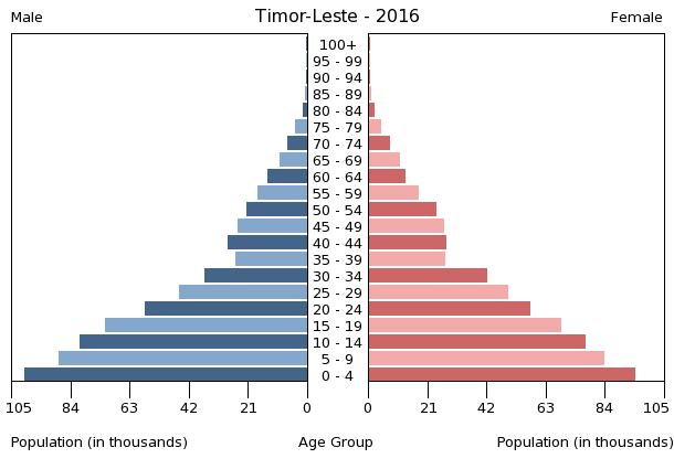 The population pyramid of East Timor illustrates the age and sex structure of population and may provide insights about political and social stability, as well as economic development. The population is distributed along the horizontal axis, with males shown on the left and females on the right. The male and female populations are broken down into 5-year age groups represented as horizontal bars along the vertical axis, with the youngest age groups at the bottom and the oldest at the top. The shape of the population pyramid gradually evolves over time based on fertility, mortality, and international migration trends.